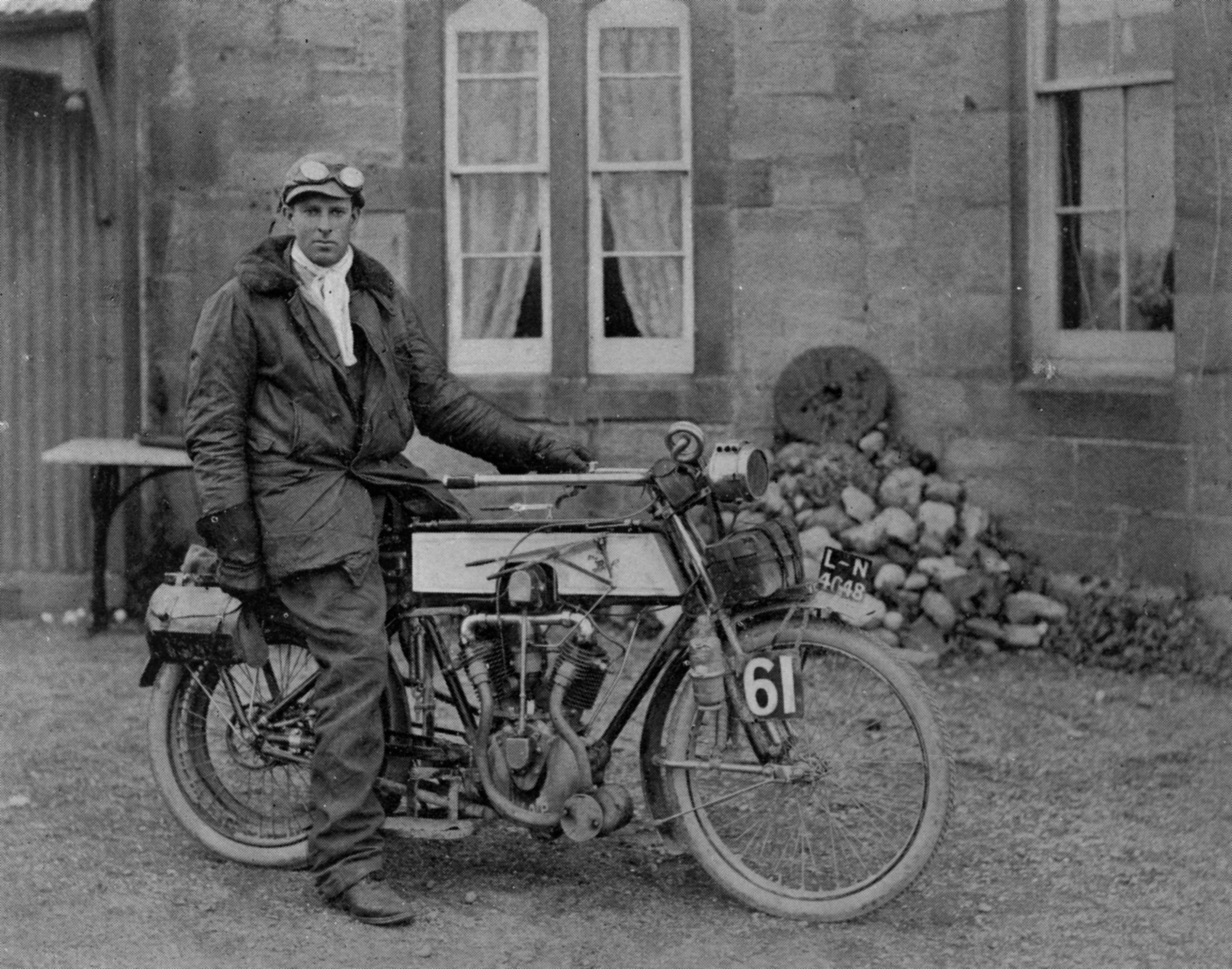 Anthony Frederick Wilding on a BAT-JAP motorcycle. Taken at Land's End before he left to go to John O'Groats.